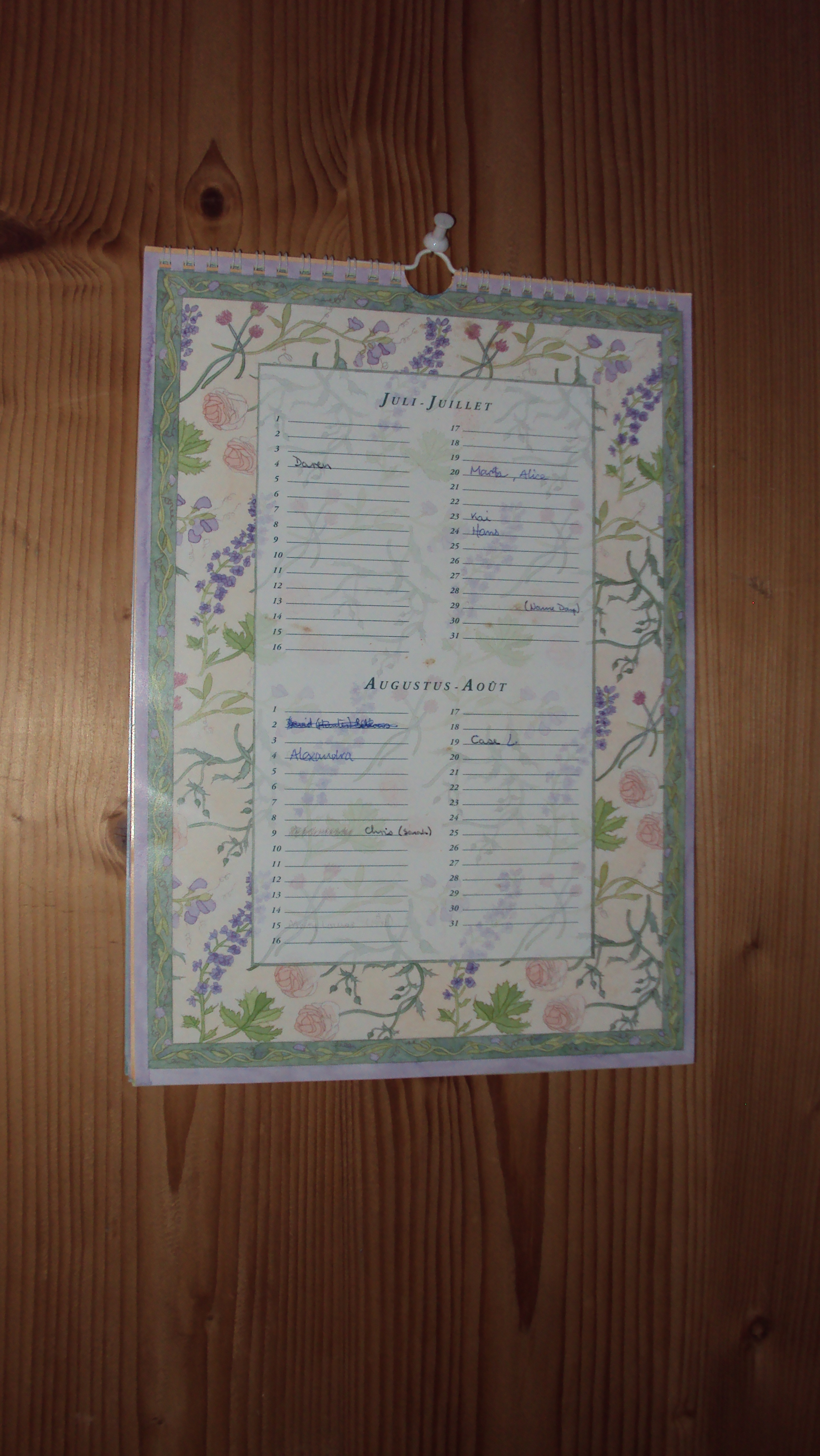 Birthday calendar commonly used in The Netherlands for keeping track of birthdays or other anniversaries, in this case the months of July and August.